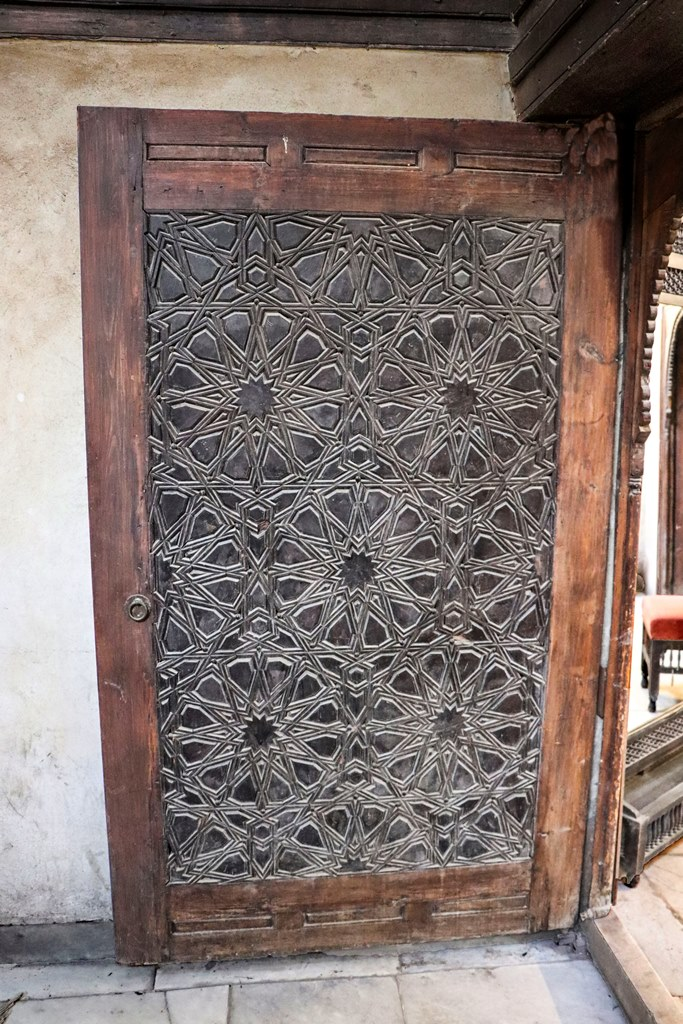 Bayt al-Sinnari: door in sculped stone